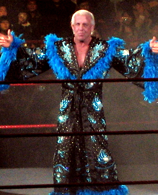 Ric Flair in Seoul, South Korea. February 10, 2008.